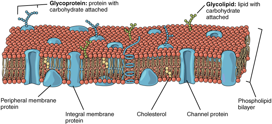 Caption: The cell membrane of the cell is a phospholipid bilayer containing many different molecular components, including proteins and cholesterol, some with carbohydrate groups attached. URL: Version 8.25 from the Textbook OpenStax Anatomy and Physiology Published May 18, 2016